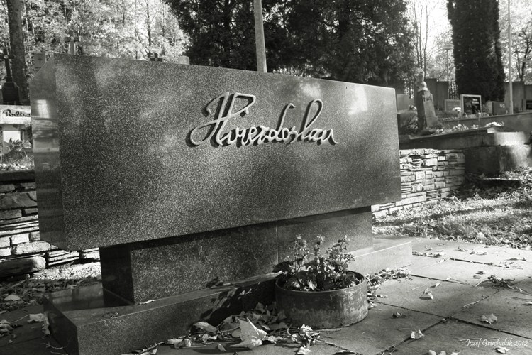 Grave of Pavol Országh Hviezdoslav, Historic Cemetery in Dolny Kubin